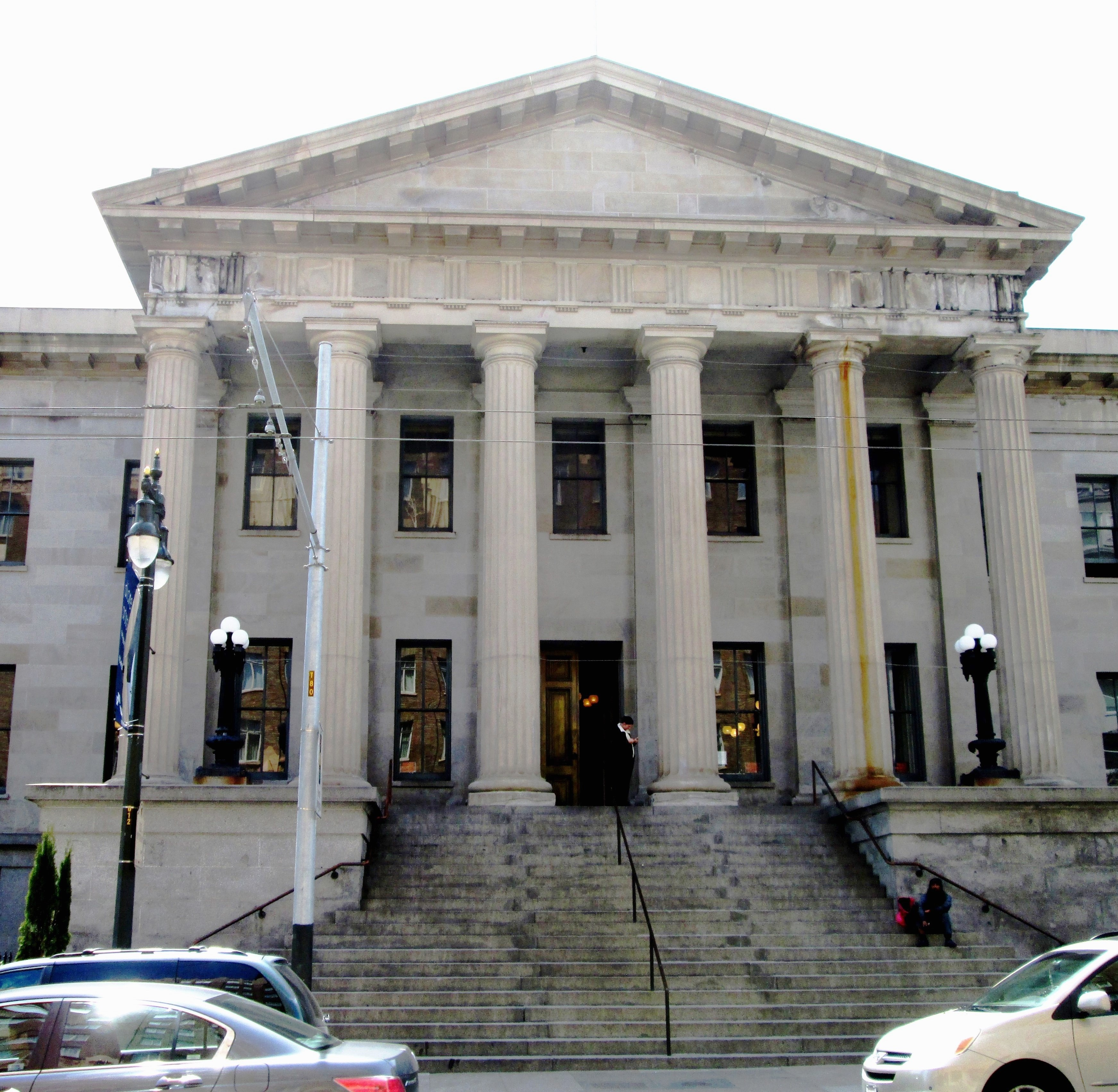 Old United States Mint in San Francisco is located at 5th Street at the corner of Mission Street in the South of Market (SoMa) neighborhood of San Francisco. The mint was established in 1854 to serve the gold mines of the California Gold Rush. The 1874 Neoclassical style building was designed by Alfred B. Mullett. It is one of the few downtown structures that survived the 1906 San Francisco earthquake. As of 2017, it is unutilized, although numerous plans have been advanced for its use.